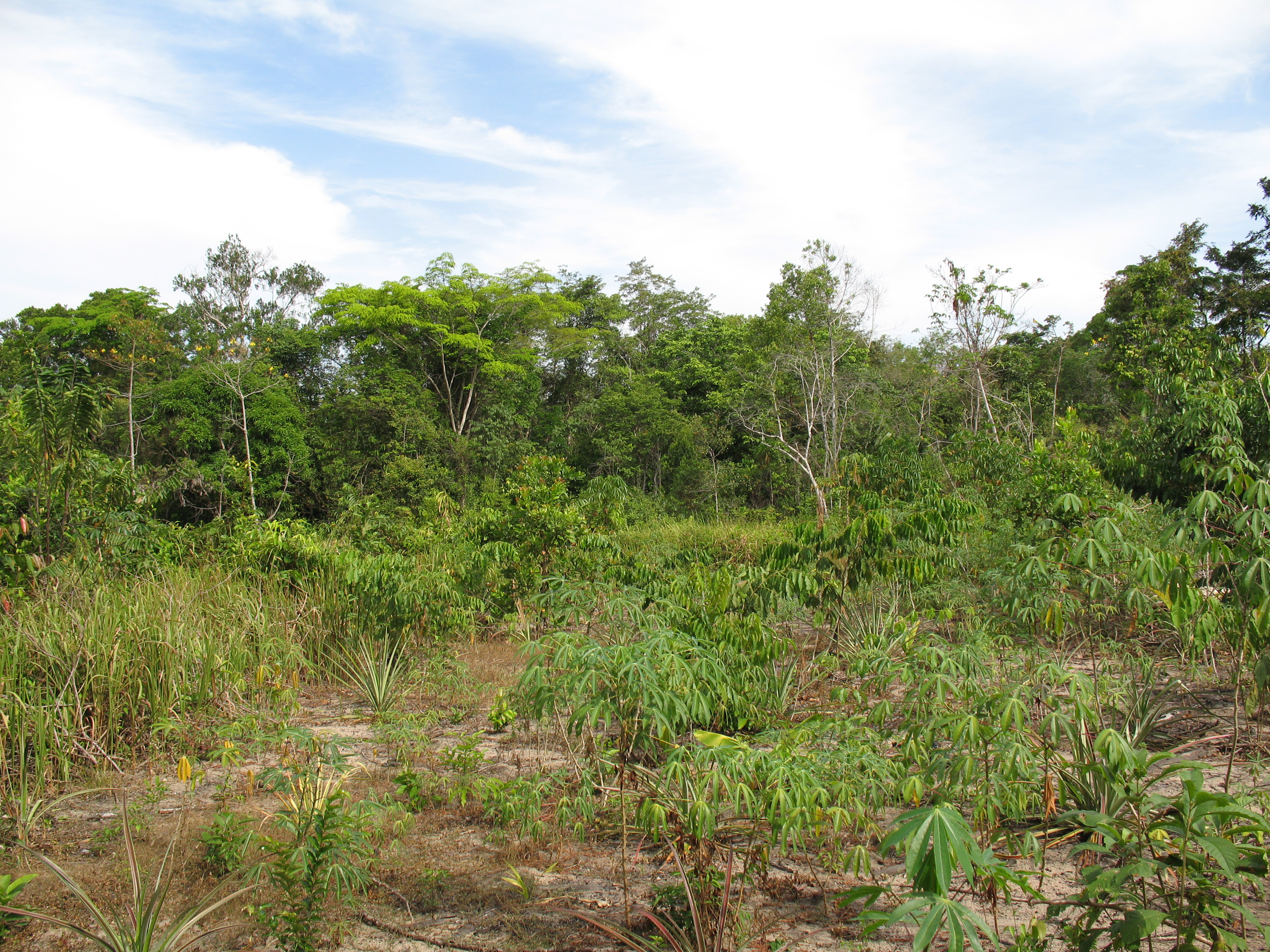 Manioc (Manihot esculenta) plantation of the Piaroa Indians, Venezuela.